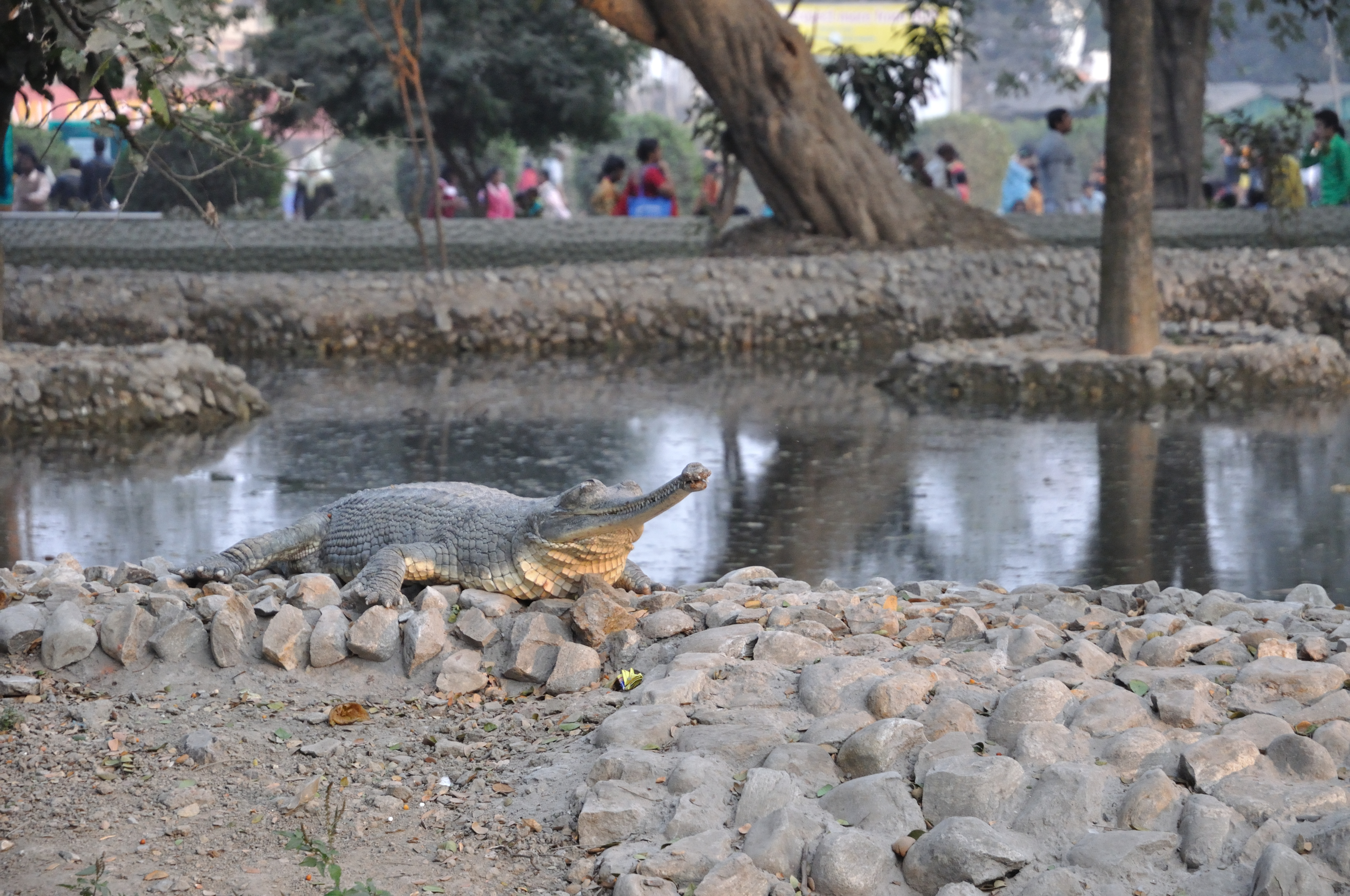 The Alipore Zoological Garden (also informally called the Alipore Zoo, Calcutta Zoo, Kolkata Zoo, or bn: Chiriyakhana, or hn: Chidiyakhana) is India's oldest formally stated zoological park and a big tourist attraction in Kolkata, West Bengal. It has been open as a zoo since 1876, and covers 45 acres (18 ha).